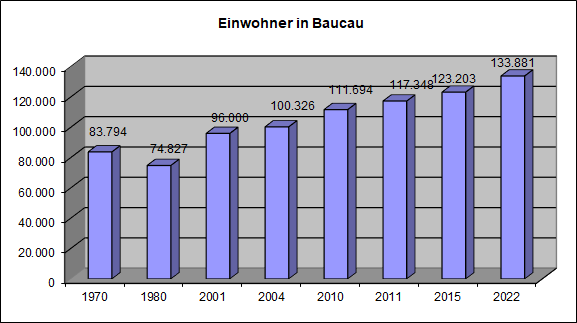 Population in Baucau/East Timor